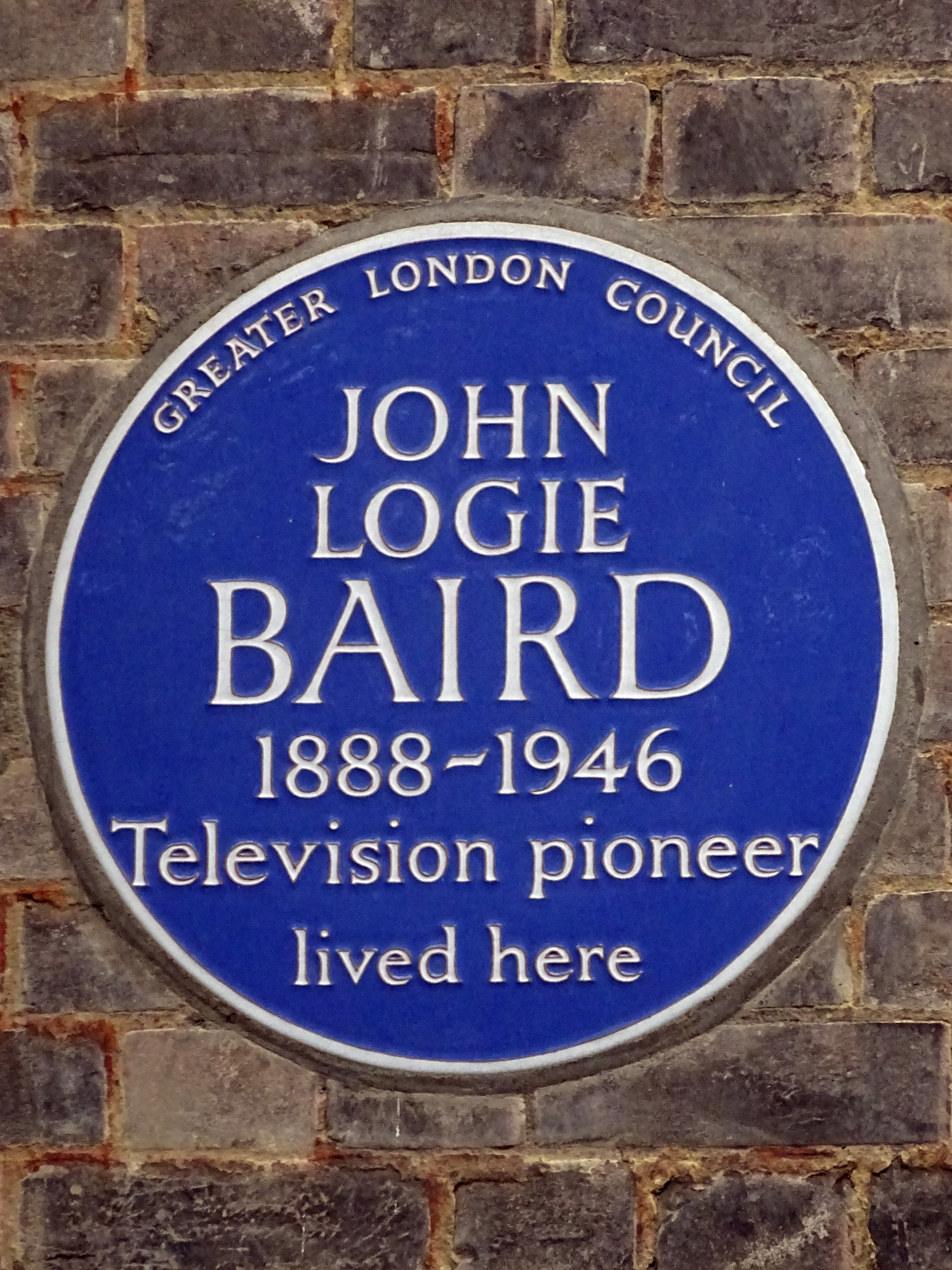 Blue plaque erected in 1977 by Greater London Council at 3 Crescent Wood Road, Sydenham, London SE26 6RT, London Borough of Southwark